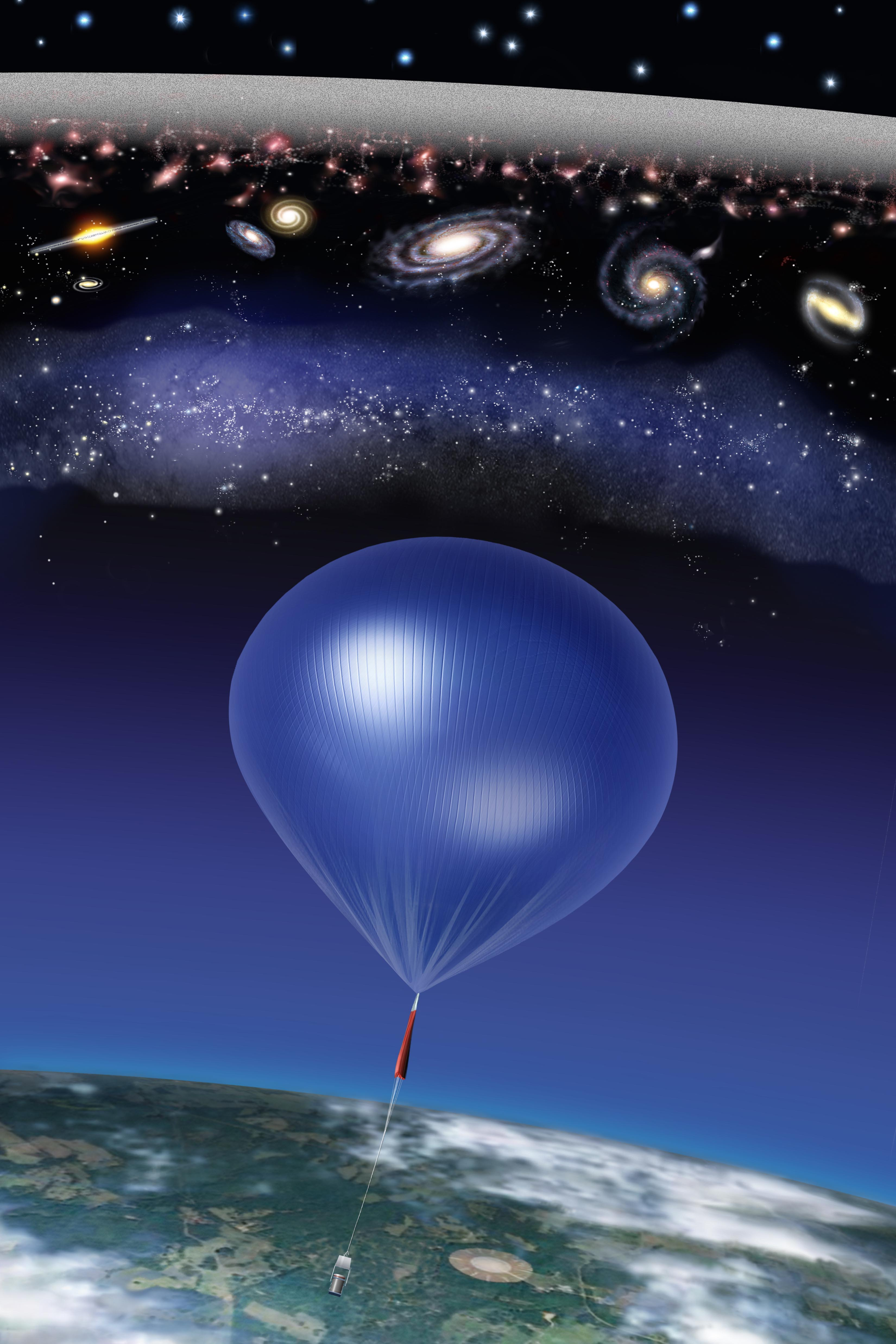 A mysterious screen of extra-loud radio noise permeates the cosmos, preventing astronomers from observing heat from the first stars. The balloon-borne ARCADE instrument discovered this cosmic static (white band, top) on its July 2006 flight. The noise is six times louder than expected. Astronomers have no idea why. Credit: NASA/ARCADE/Roen Kelly